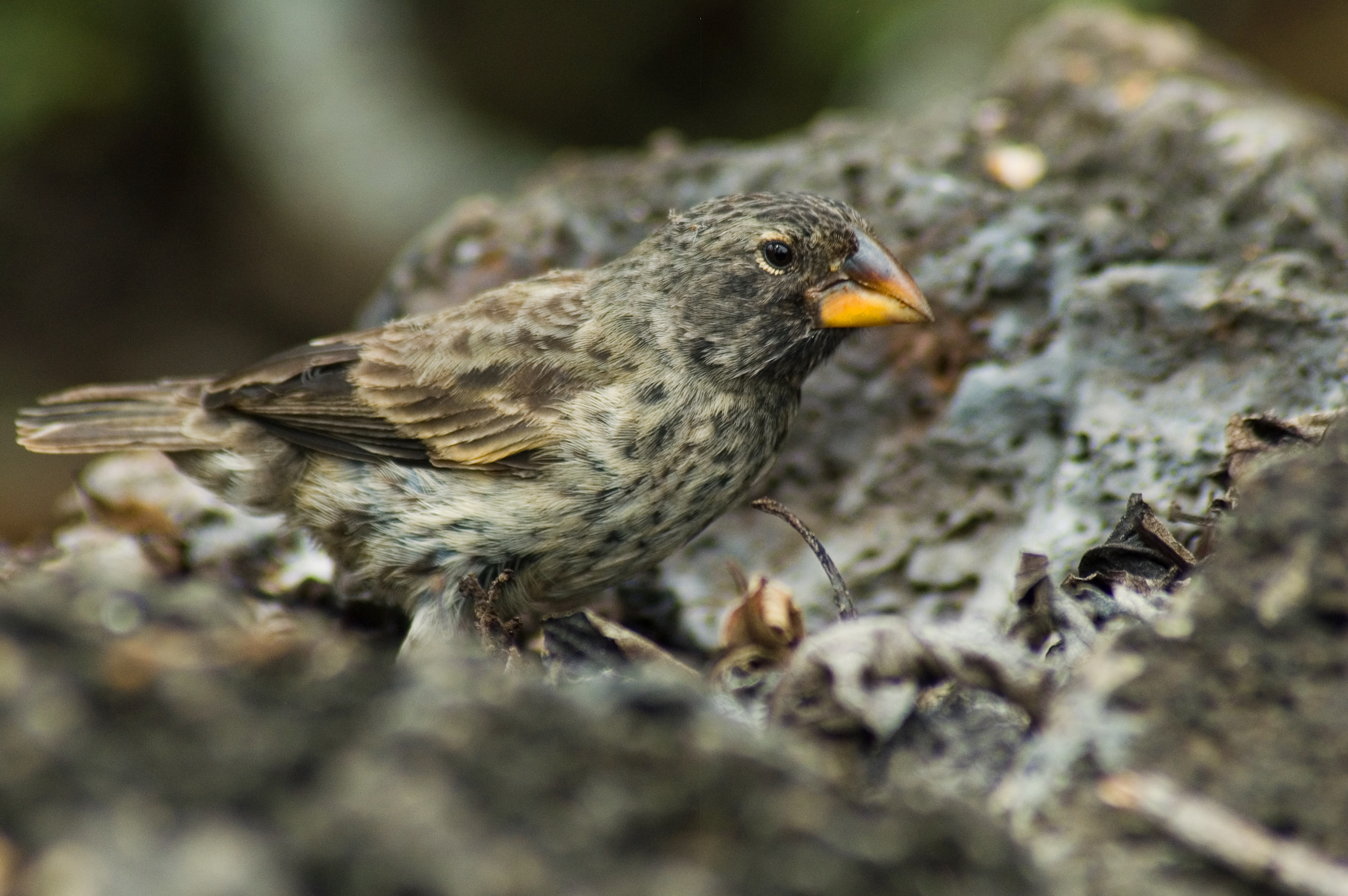 Unknown